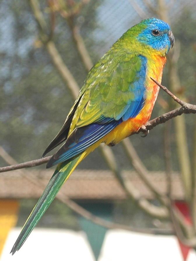 Male turquoise parrot at Twycross Zoo, Leicestershire, England.